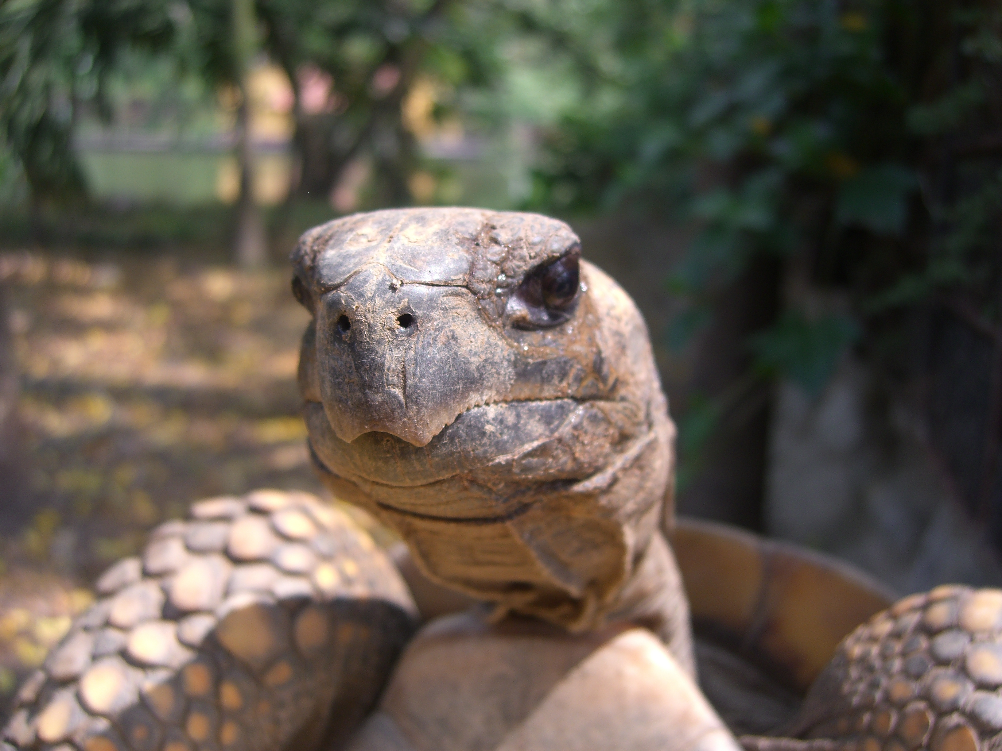 Description: Head of Geochelone denticulata